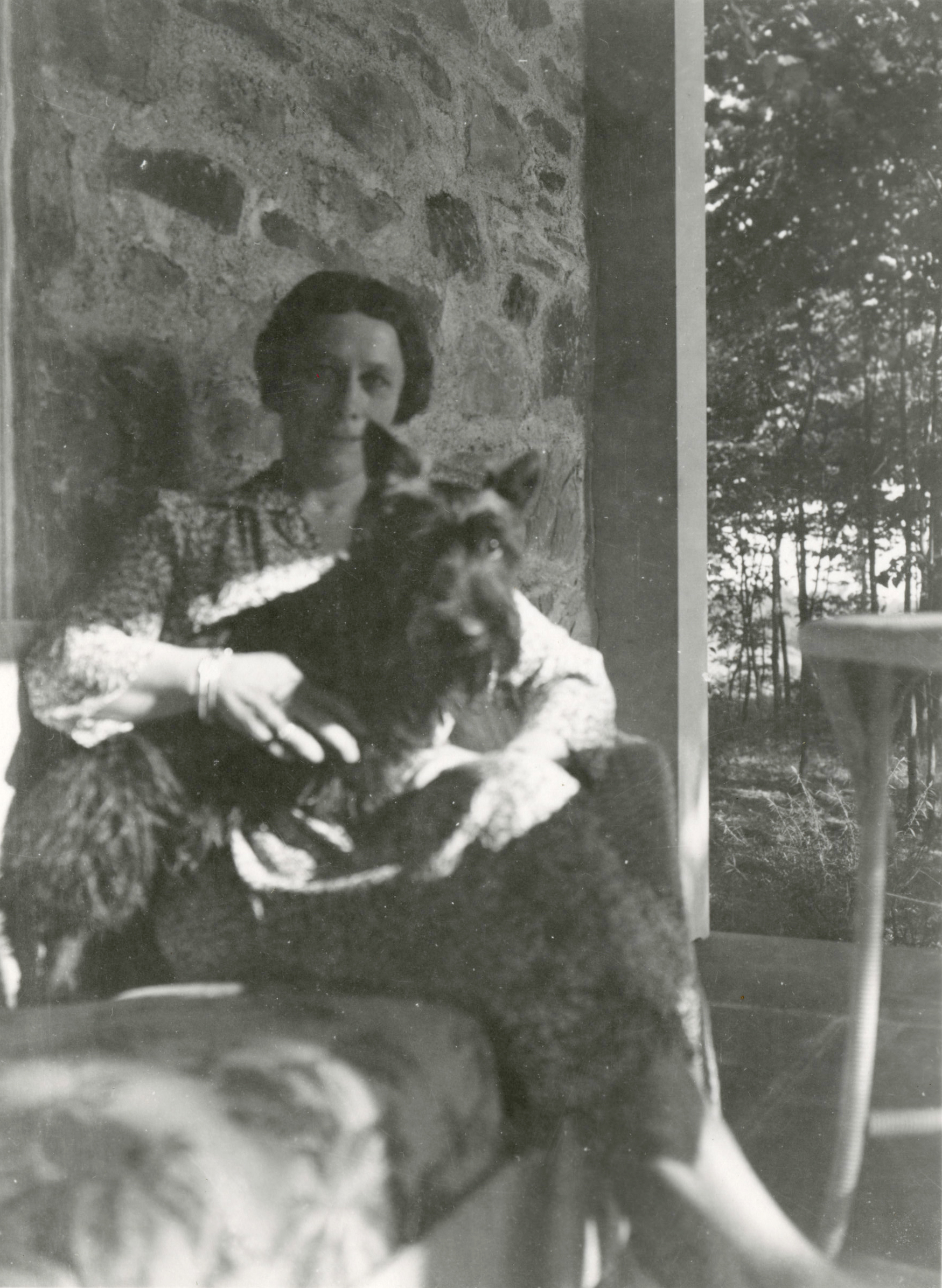 Photograph of Margaret (Daisy) Suckley and FDR's dog Fala at Top Cottage in Hyde Park, New York, during the summer of 1941.